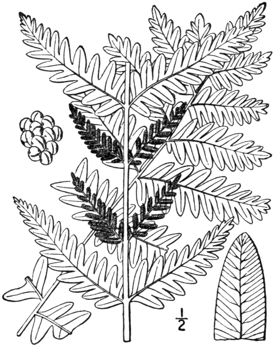 Fig. 17. Osmunda claytoniana from the second edition of An Illustrated Flora of the Northern United States, Canada and the British Possessions (New York, 1913)